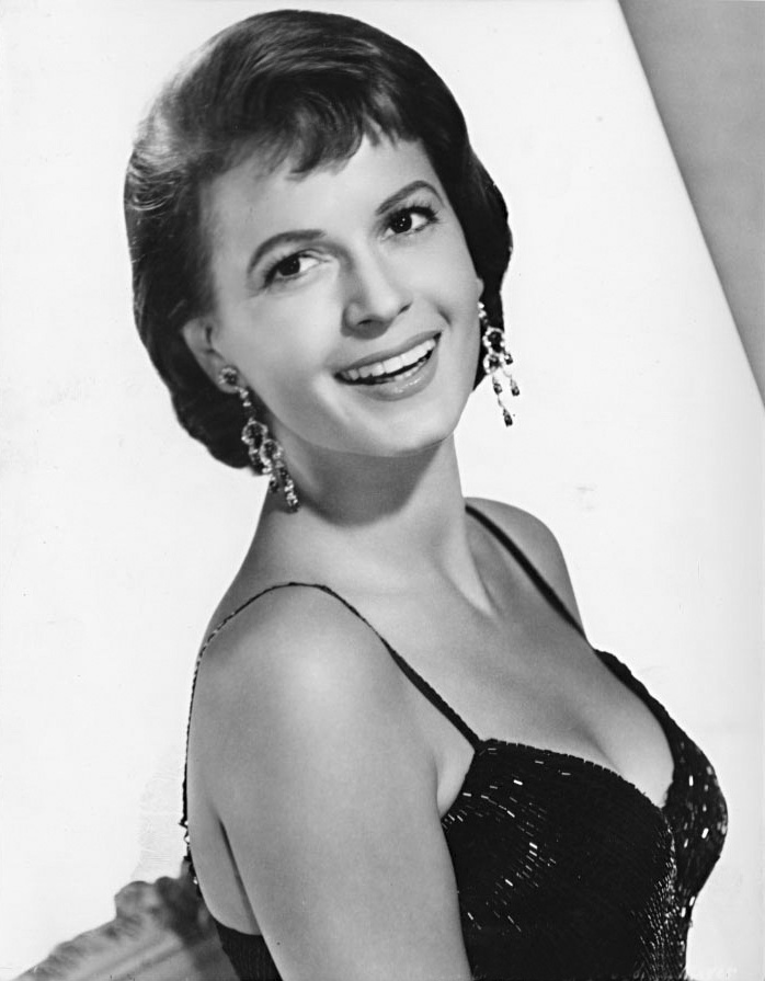 1959 Press Photo of Eva Bartok